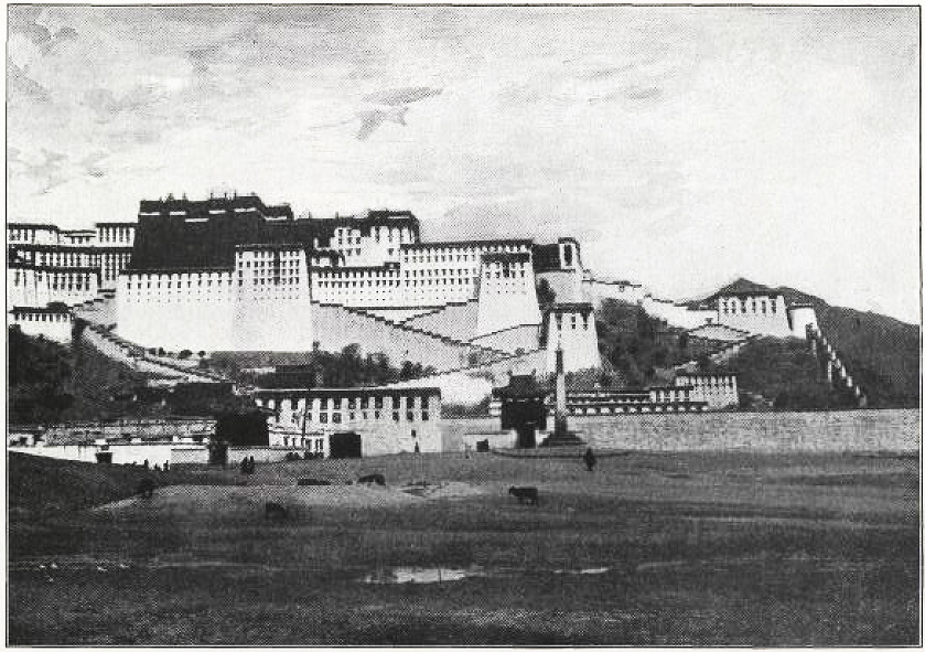 Lhasa. Potala from the South.